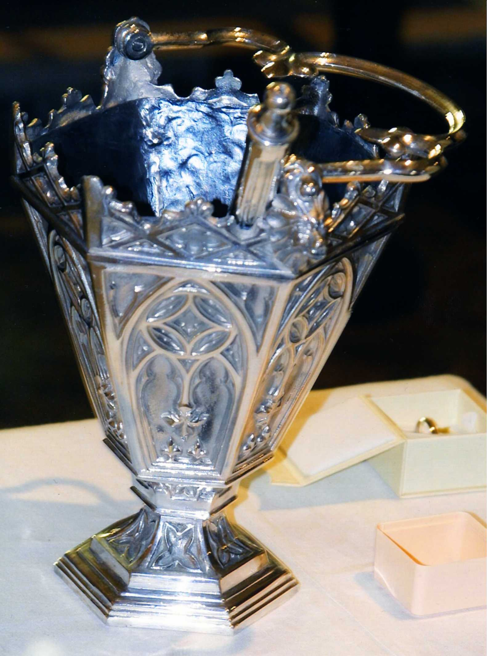 A vessel of holy water (and two wedding rings)